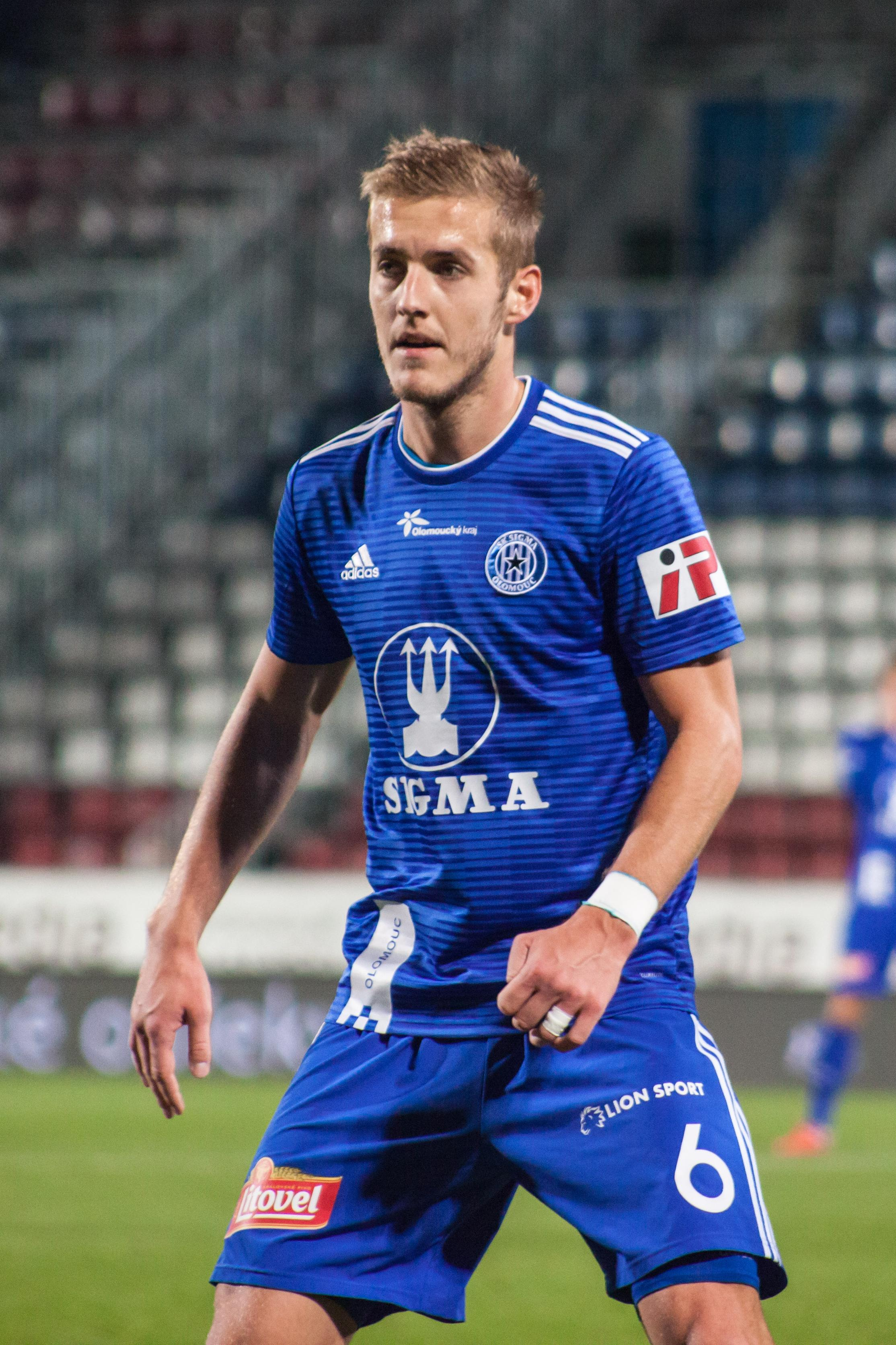 Jakub Plšek At Czech cup (MOL Cup) match SK Sigma Olomouc-FC Fastav Zlín played on 15 November 2018